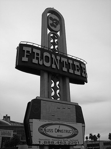 Sign for the recently demolished Frontier Casino, Las Vegas, Nevada, USA.